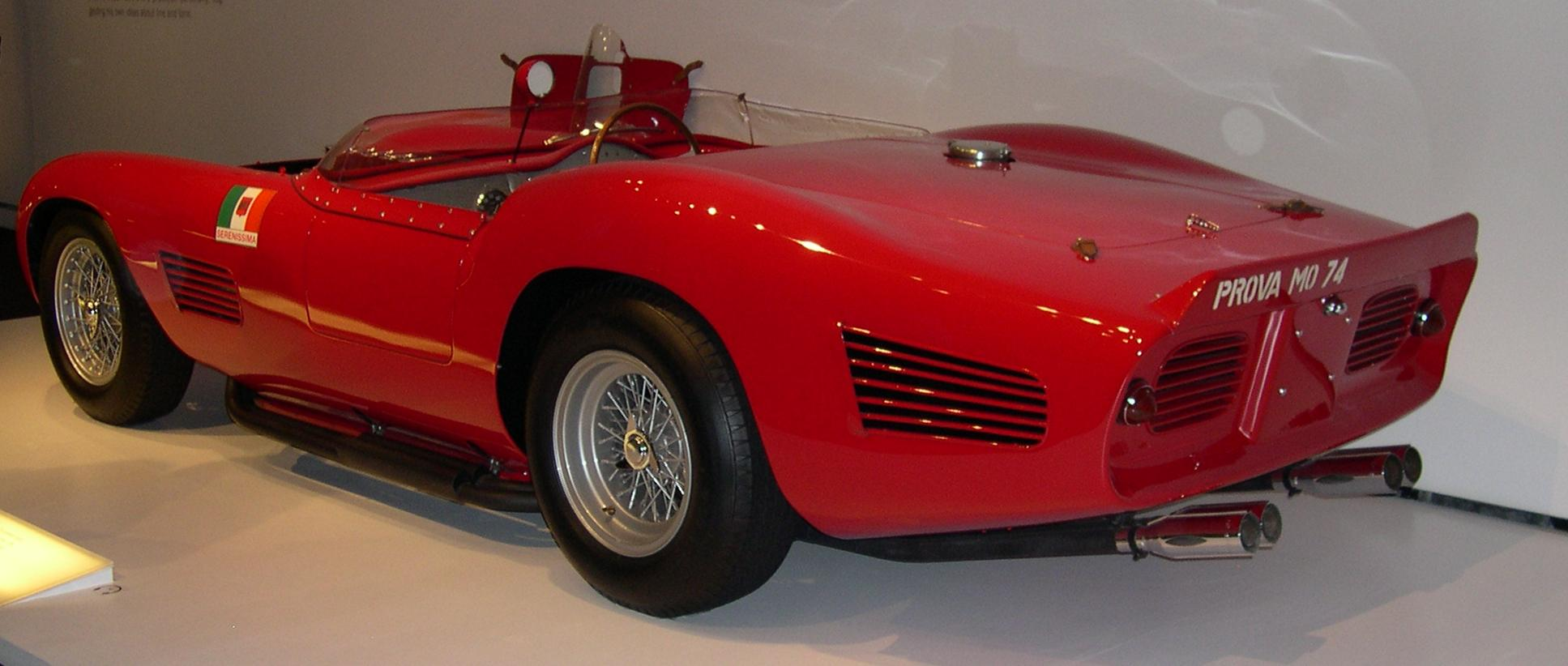 1961 Ferrari 250 TR 61 Spyder Fantuzzi From the Ralph Lauren collection on display at the Boston Museum of Fine Arts. Photo taken in 2005. Source: Photo by User:Sfoskett